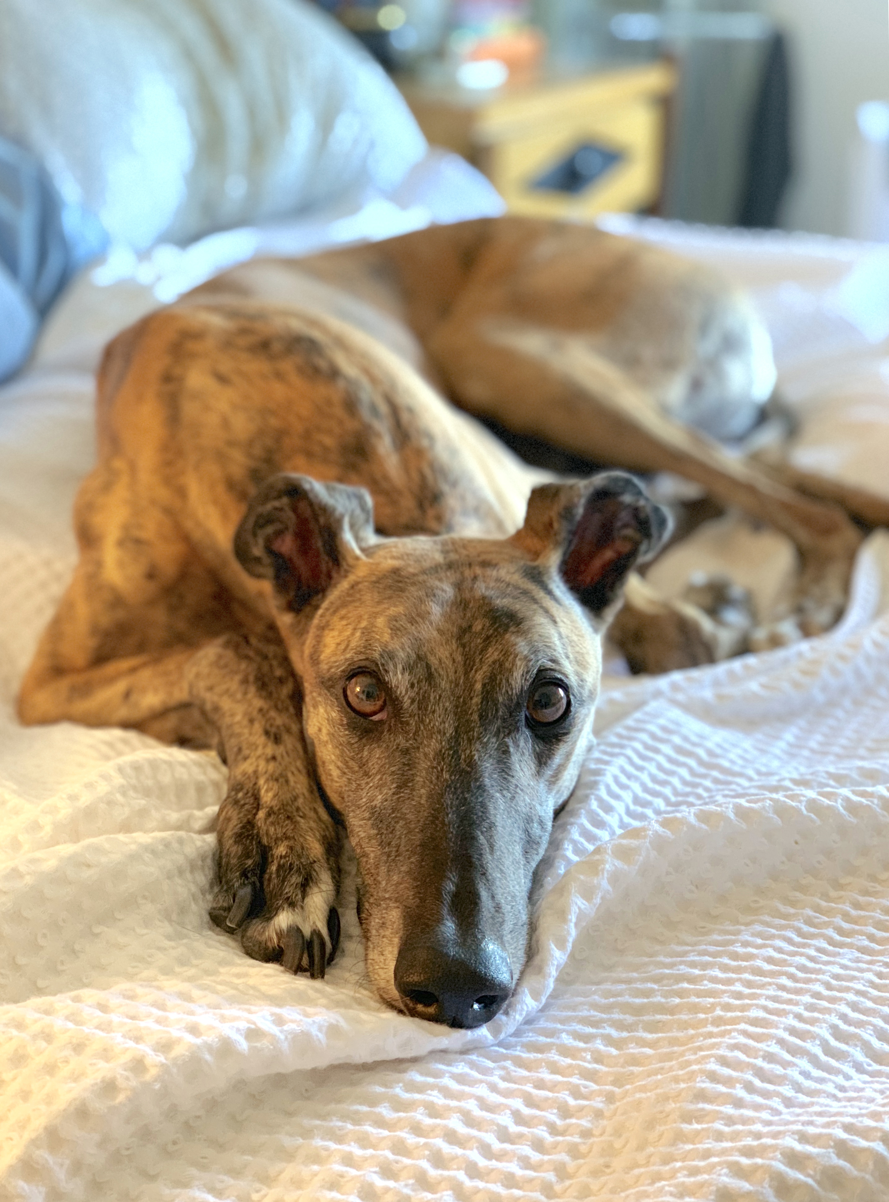 5 year old former racing greyhound with a brindle pattern resting on a bed in his new home.